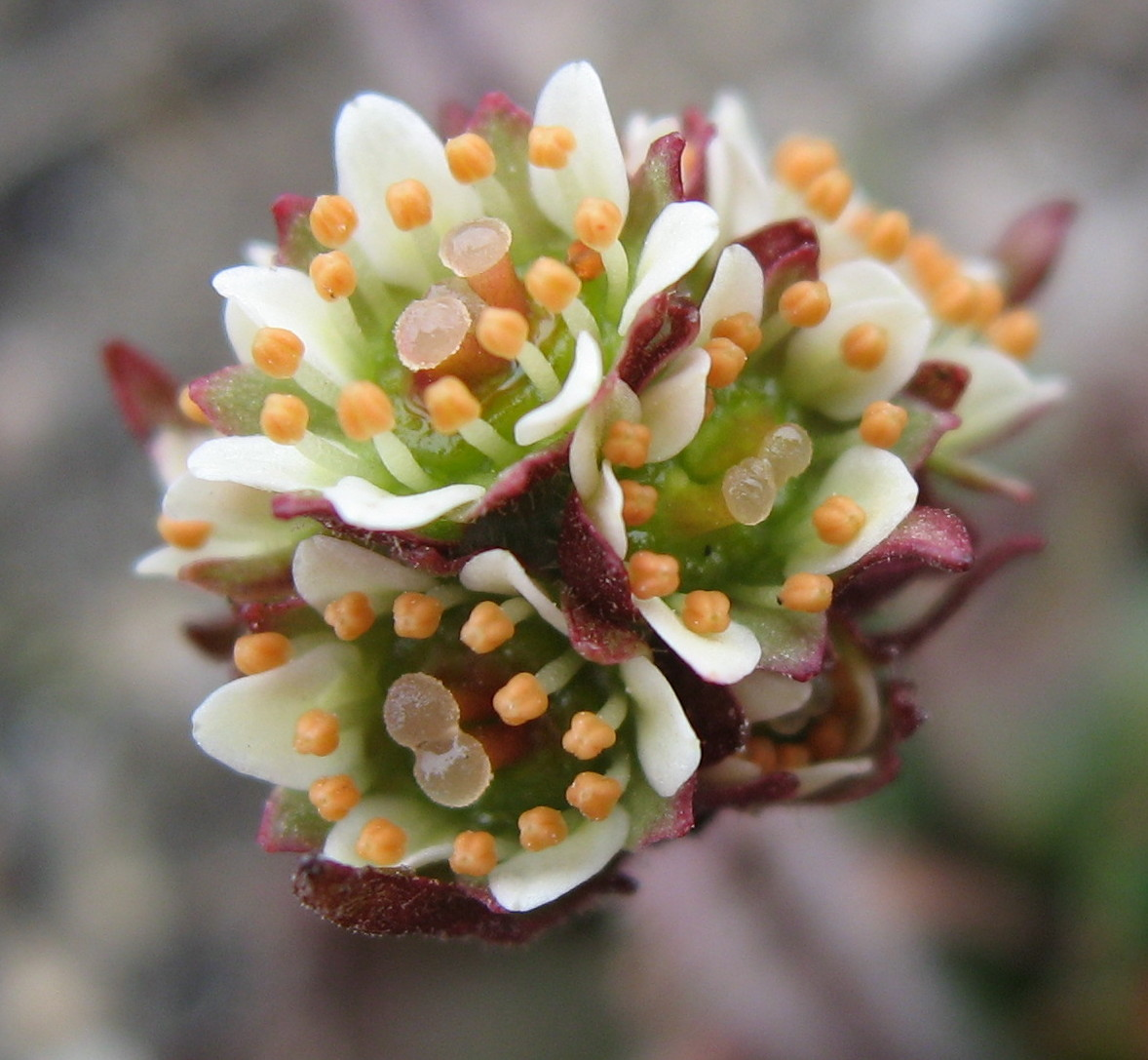 Alpine saxifrage (Saxifraga nivalis) flower photographed in Upernavik, Greenland.